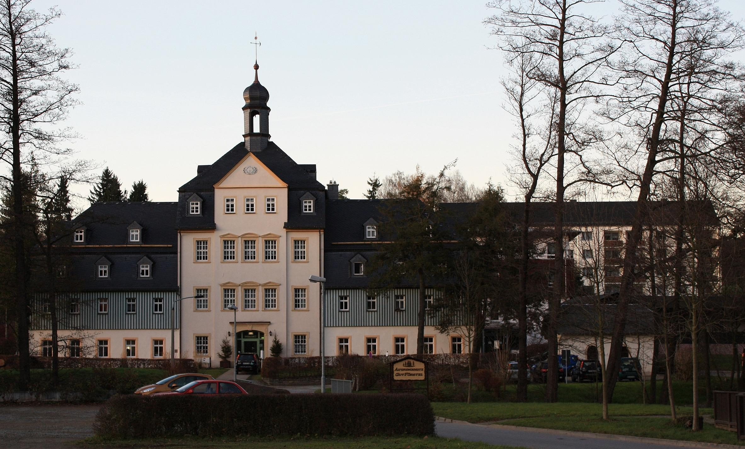 Gut Förstel in Langenberg (Raschau-Markersbach), Saxony, Germany.